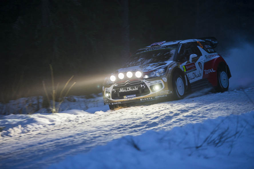 Rally Sweden 2014 Citroen DS3 WRC,Citroen Total Abu Dhabi WRT,Citroen Total Abu Dhabi World Rally Team,Kris Meeke,Motorsport,Paul Nagle,Rally,Rally Sweden,Rallye,Rallye Schweden,Shakedown